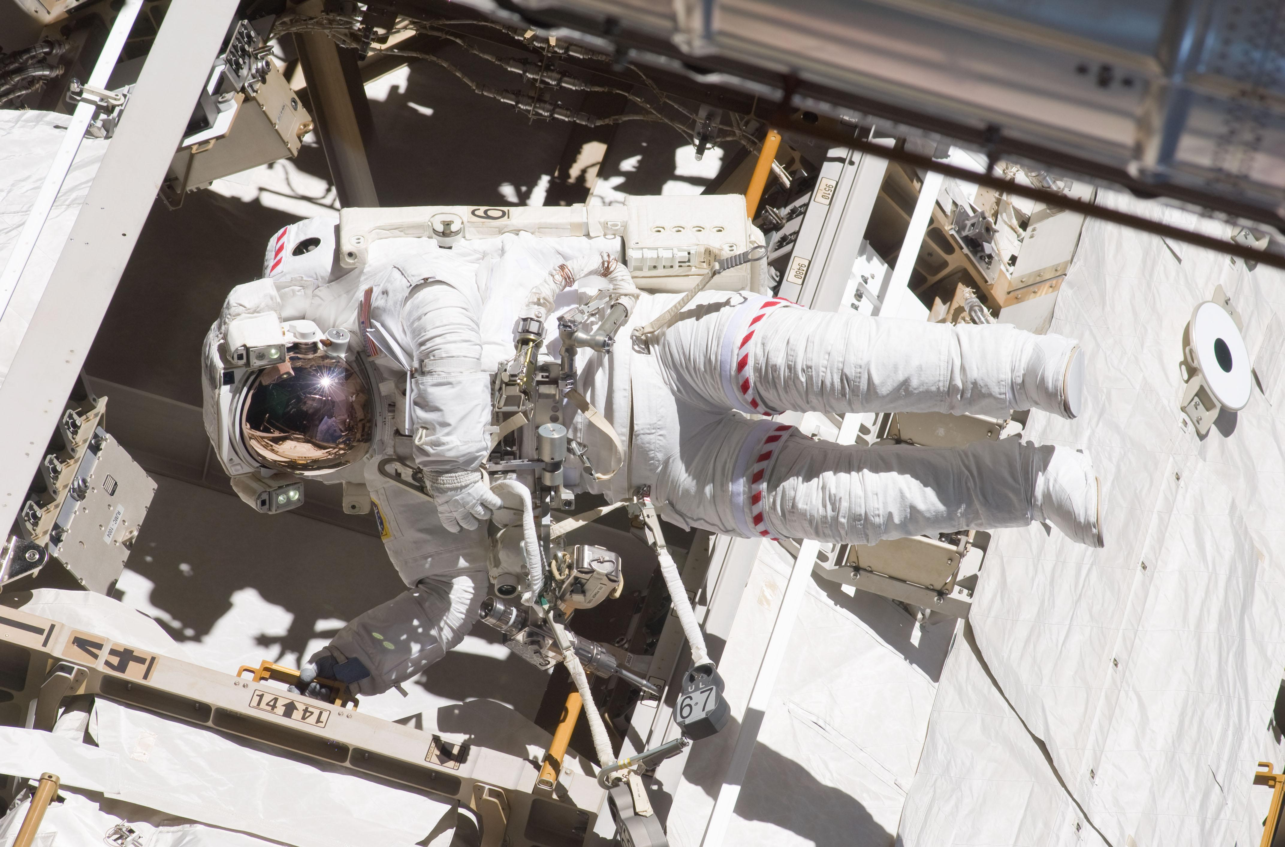 STS-132 Mission Specialist Michael Good participates in the mission's second session of extravehicular activity as construction and maintenance continue on the International Space Station. During the seven-hour, nine-minute spacewalk, Good and Mission Specialist Steve Bowen (out of frame), changed out four of the six 375-pound batteries on the International Space Station's port 6 truss. Bowen also removed a cable snag in the orbiter boom sensor system's pan and tilt mechanism.